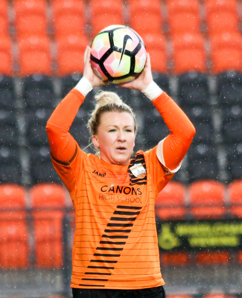 London Bees v Watford FC Ladies, 27 January 2018